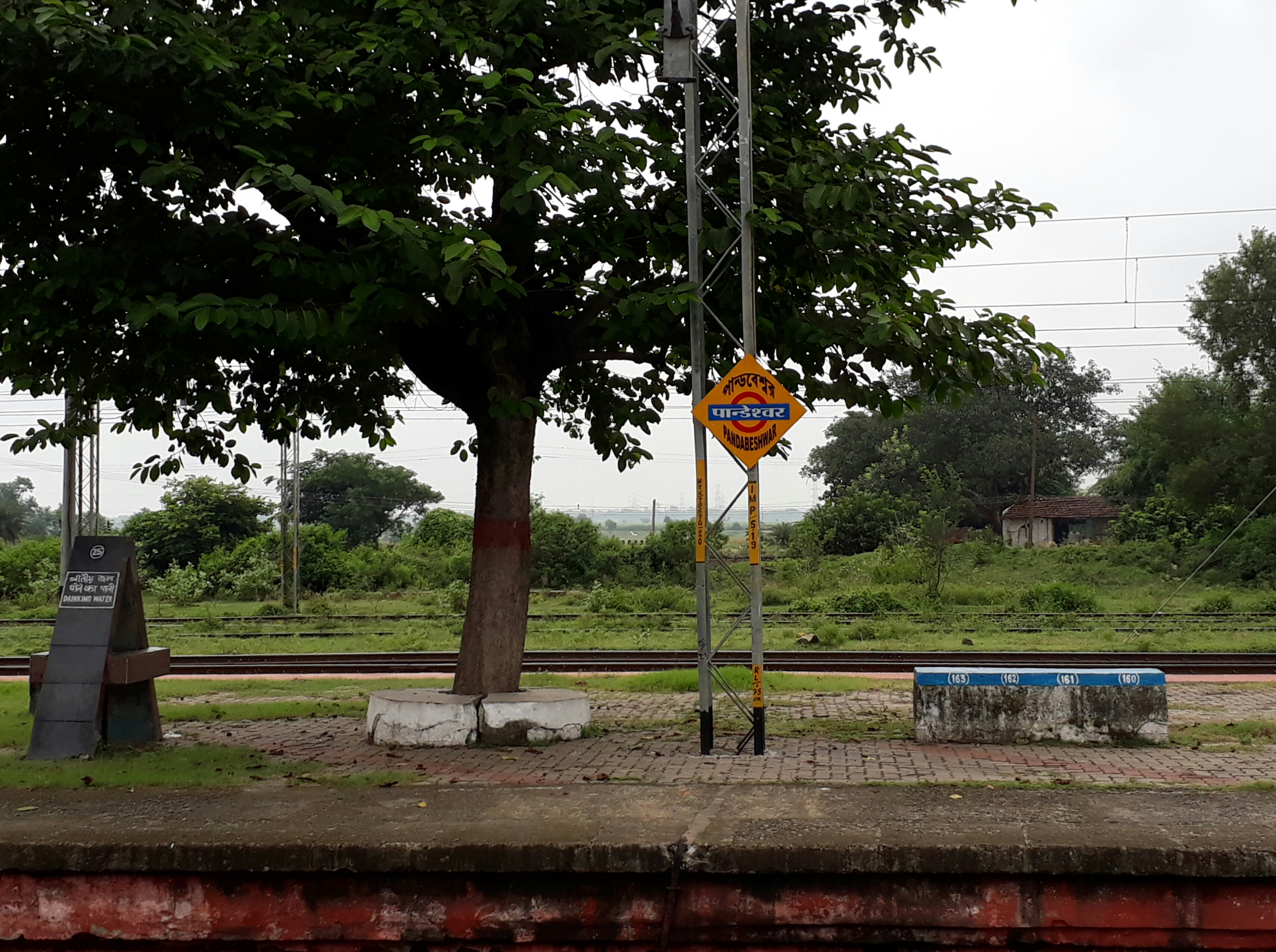 Railway Stations of West Bengal in Sainthia to Andal line.